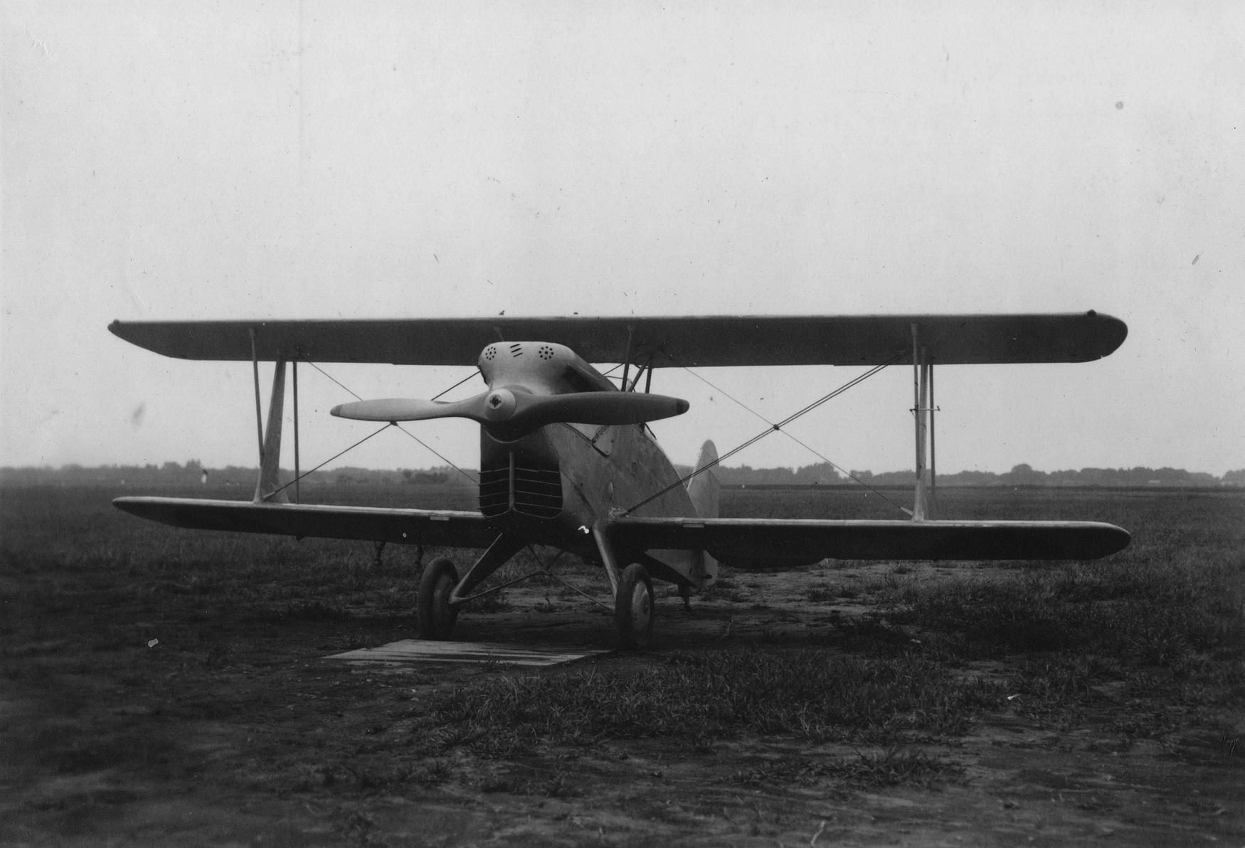 Kawasaki Army Type 92 Fighter